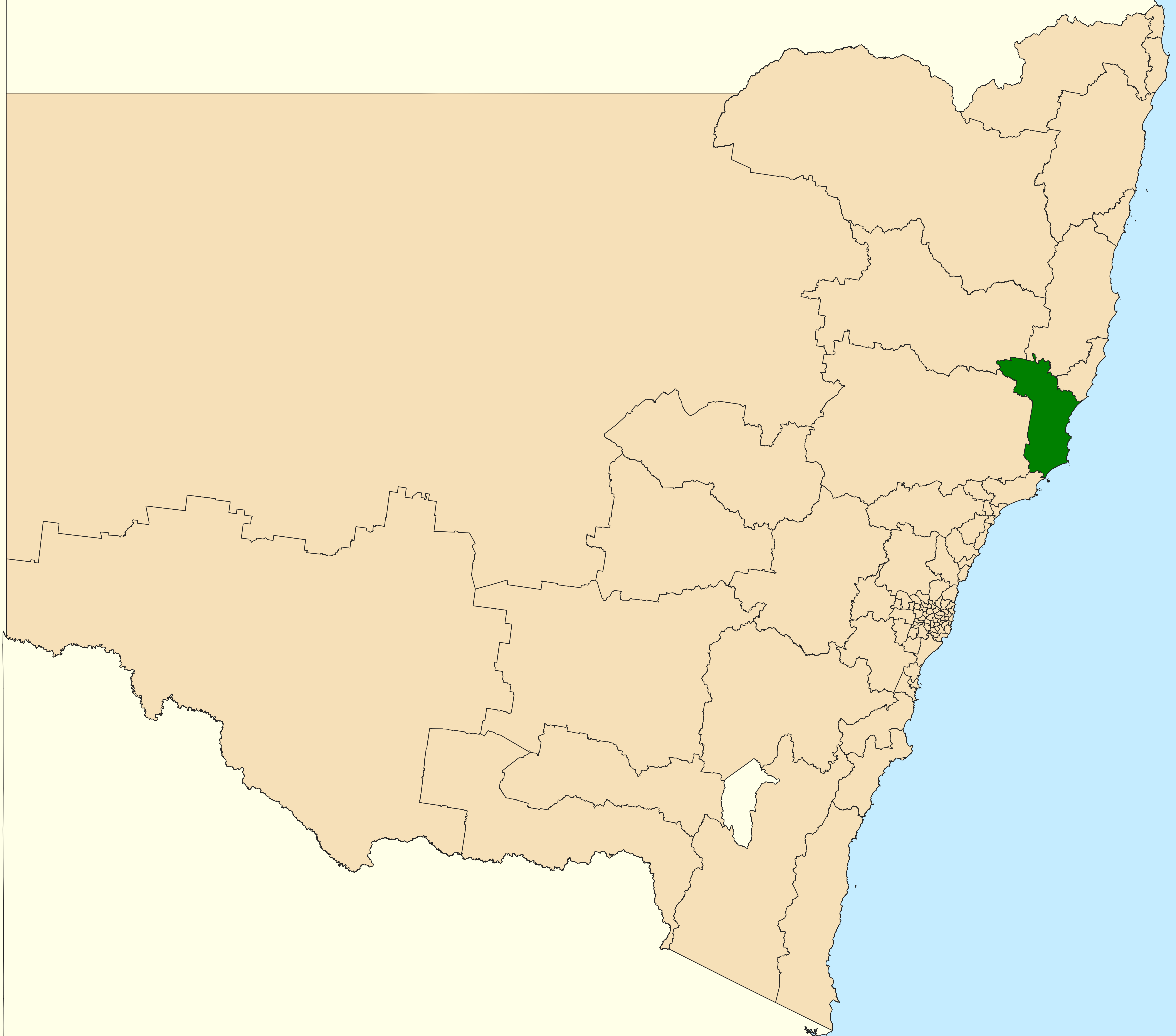 Location of the state electoral district of Myall Lakes (dark green) in New South Wales as of the 2019 New South Wales state election. Incorporates or developed using Administrative Boundaries ©PSMA Australia Limited licensed by the Commonwealth of Australia under Creative Commons Attribution 4.0 International licence (CC BY 4.0).